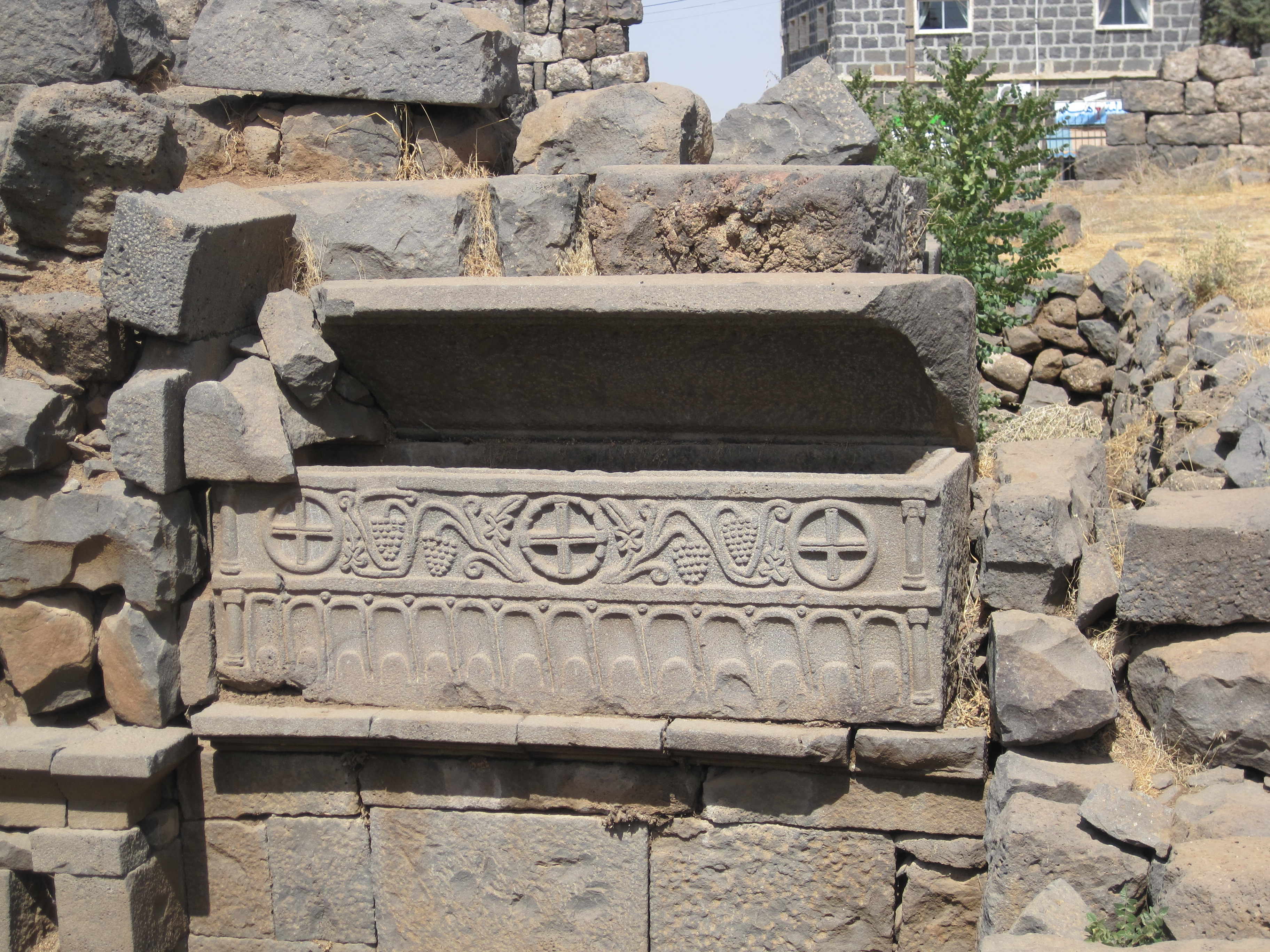 Sarcophogus in late 4th century church in Qanawat, Syria